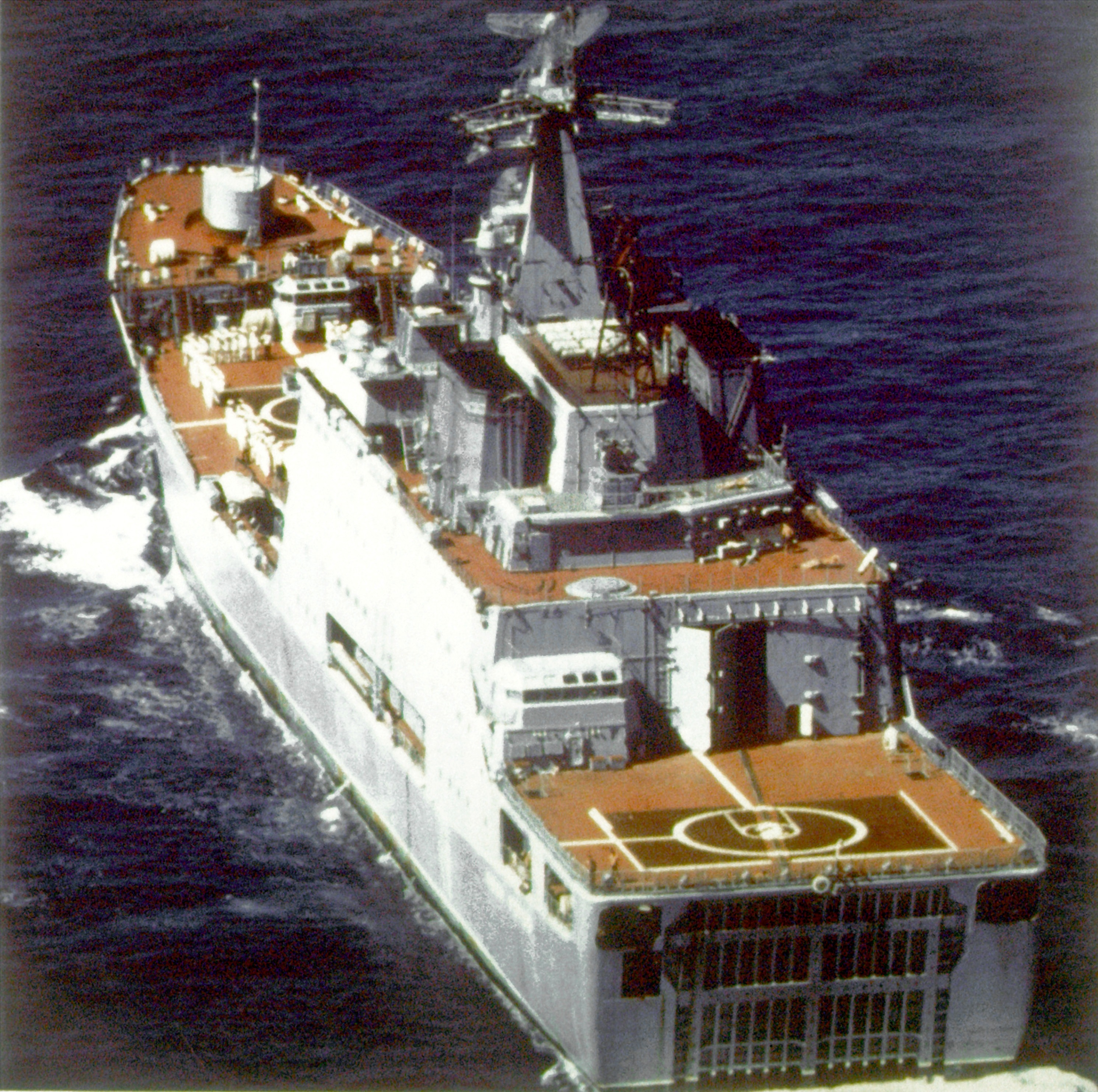 A port quarter view of a Soviet Ivan Rogov class amphibious assault transport ship underway.